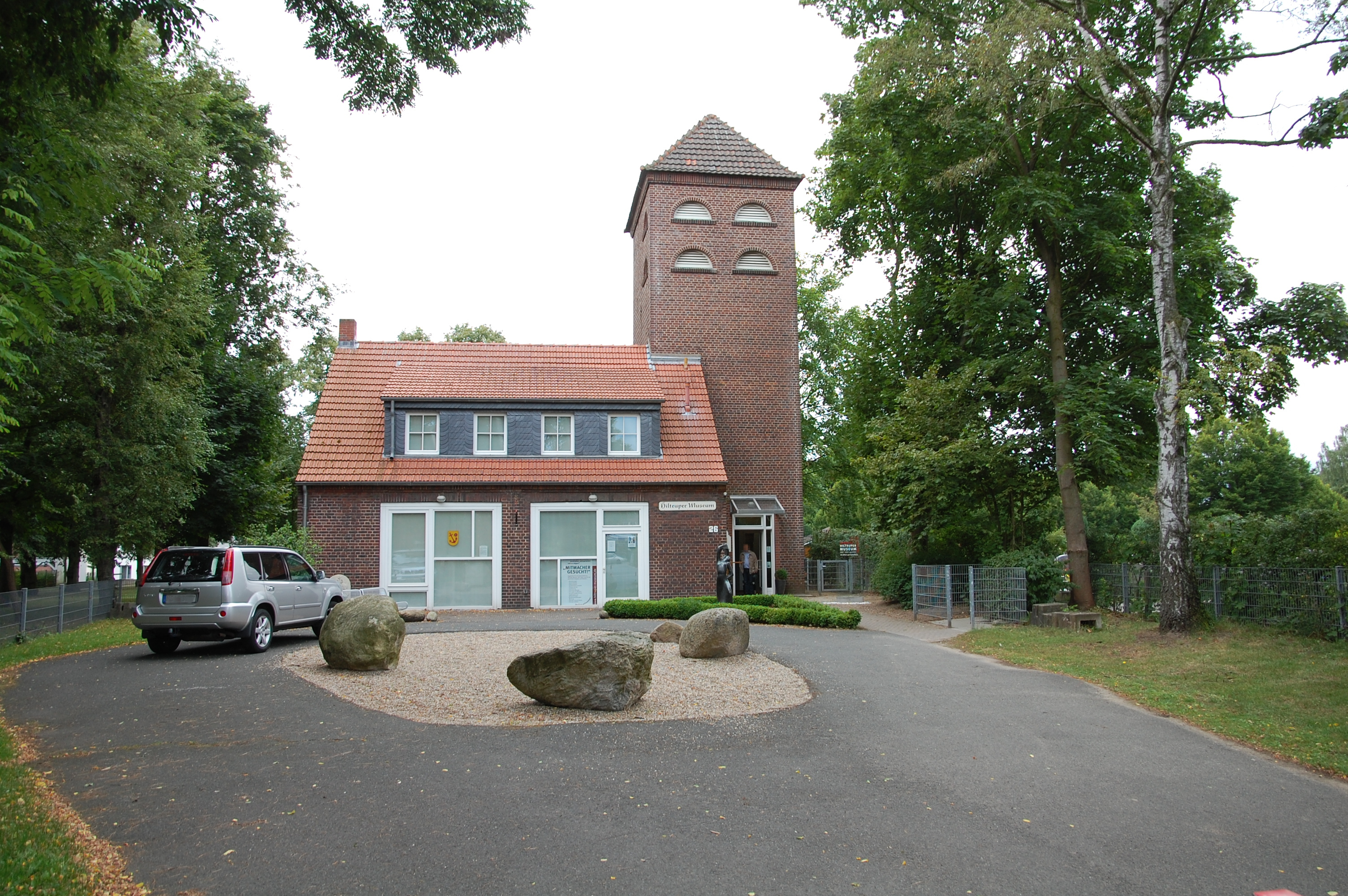 The Museum of Hiltrup in Münster-Hiltrup in Germany.